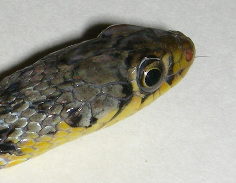 Buff-striped keelback, Amphiesma stolata, Family Colubridinae, Serpentes The snake has large round eyes with golden flecking and big pupils. Image taken on 17 Jul 06 in Binnaguri, Duars, northern West Bengal, India by AshLin. Self-work. CC2.5-Self work, attribution required. AshLin 11:51, 23 July 2006 (UTC)